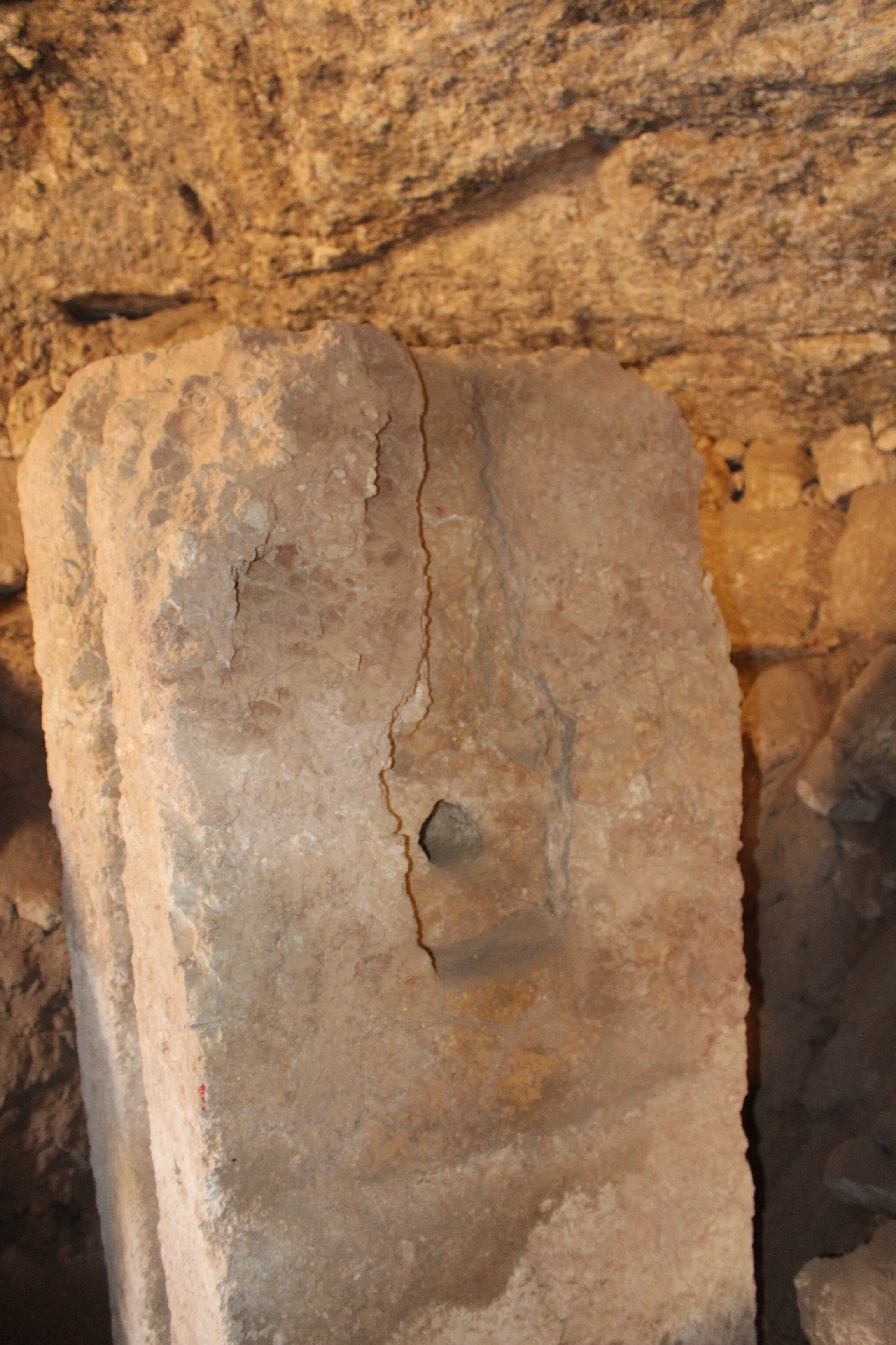 Anim underground olive press, Anim, Yatir Forest, Negev, Israel The site's ID in Wiki Loves Monuments photographic competition is 62-1268-101